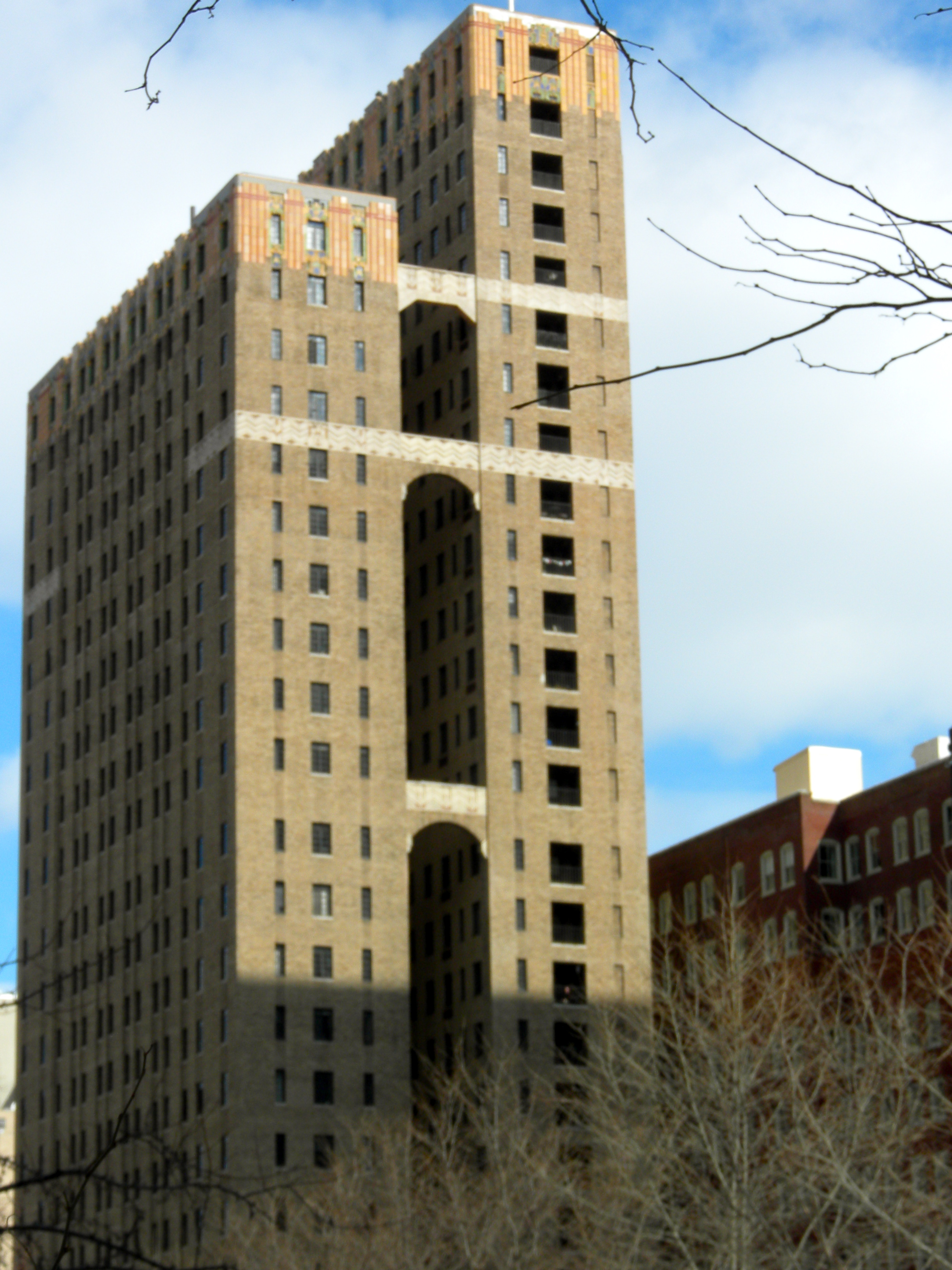 Center City Philadelphia YMCA building. Now it looks like condos with the word "Metropolitan" over it's doorway. On NRHP since December 2, 1980. 115 North 15th Street.